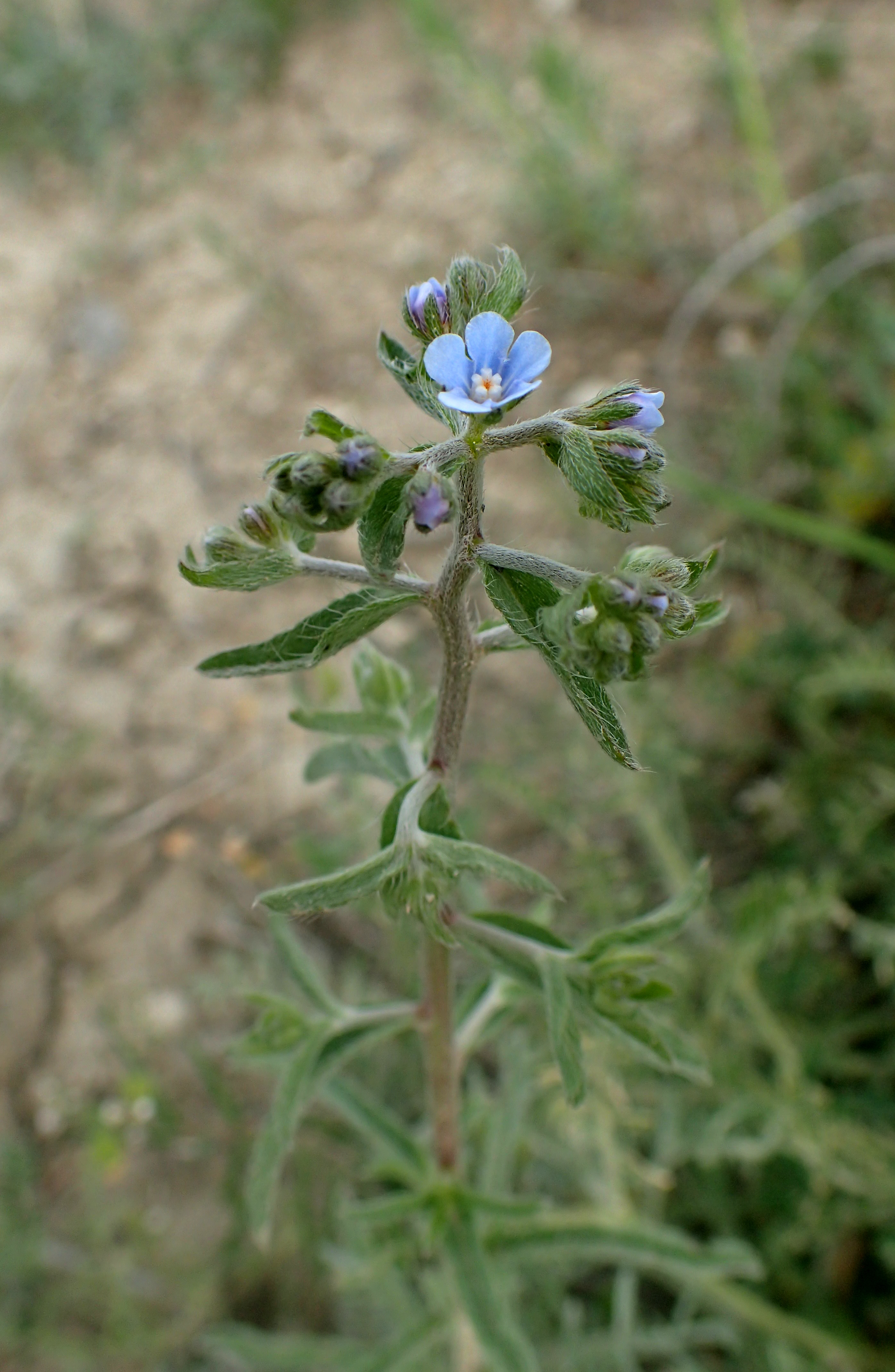 Lappula barbata in vicinity of Voghjaberd, Armenia